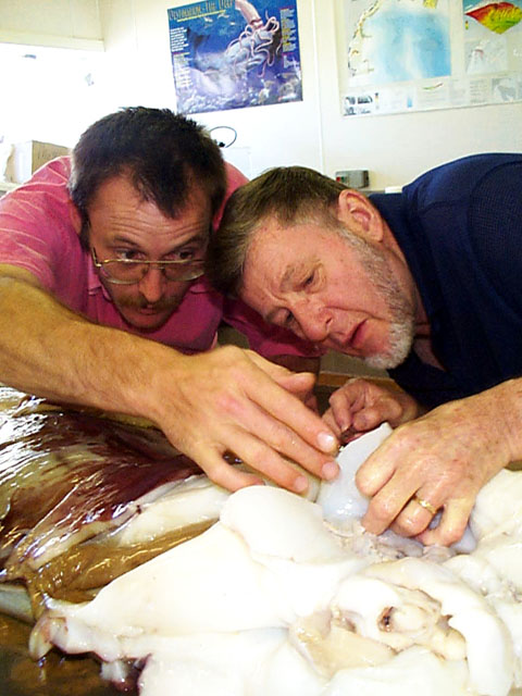 Photo from In Search of Giant Squid - 1999 Expedition Journals, Smithsonian Institution.